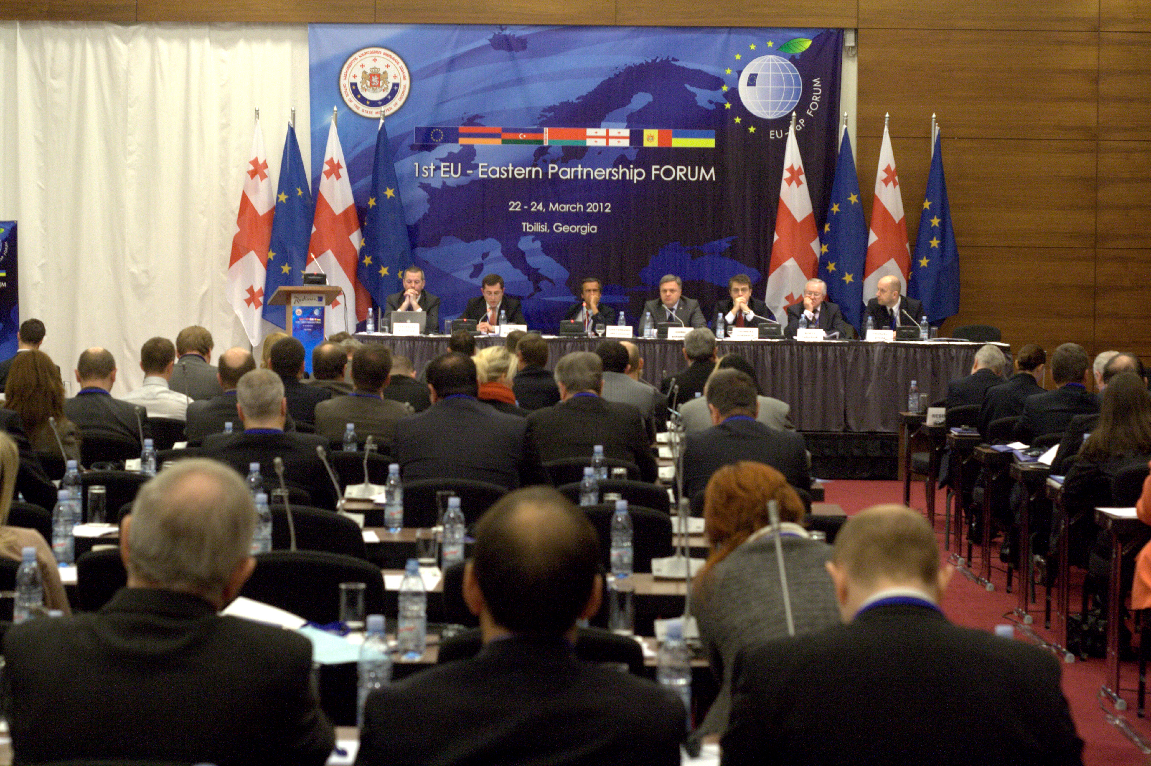 The 1st EU–Eastern Partnership forum. Tbilisi, 22-24 March 2012. Photo by Anna Woźniak.